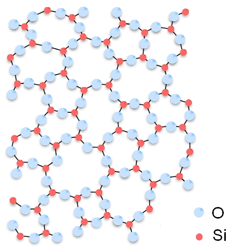 The amorphous structure of glassy Silica (SiO2) in two-dimensions.